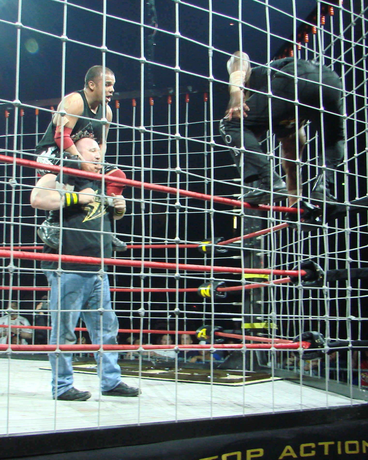 Team 3D hitting the Dudleyville Device on Homicide. Lockdown, Family Arena, St. Charles, April 15, 2007.